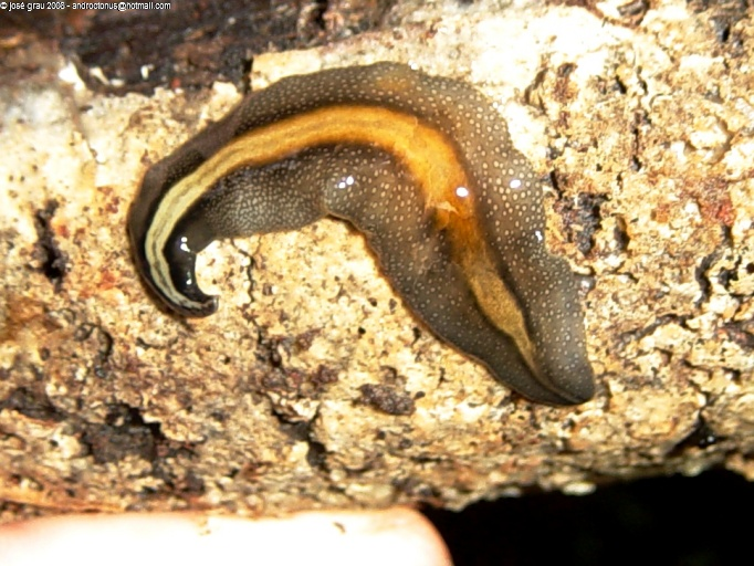 Obama burmeisteri